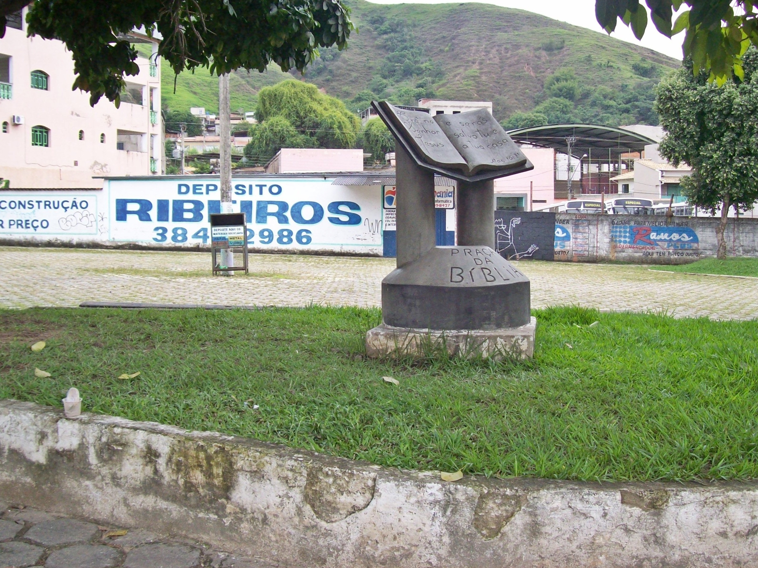 Monument of the Bíblia square, in Coronel Fabriciano, Minas Gerais, Brazil.